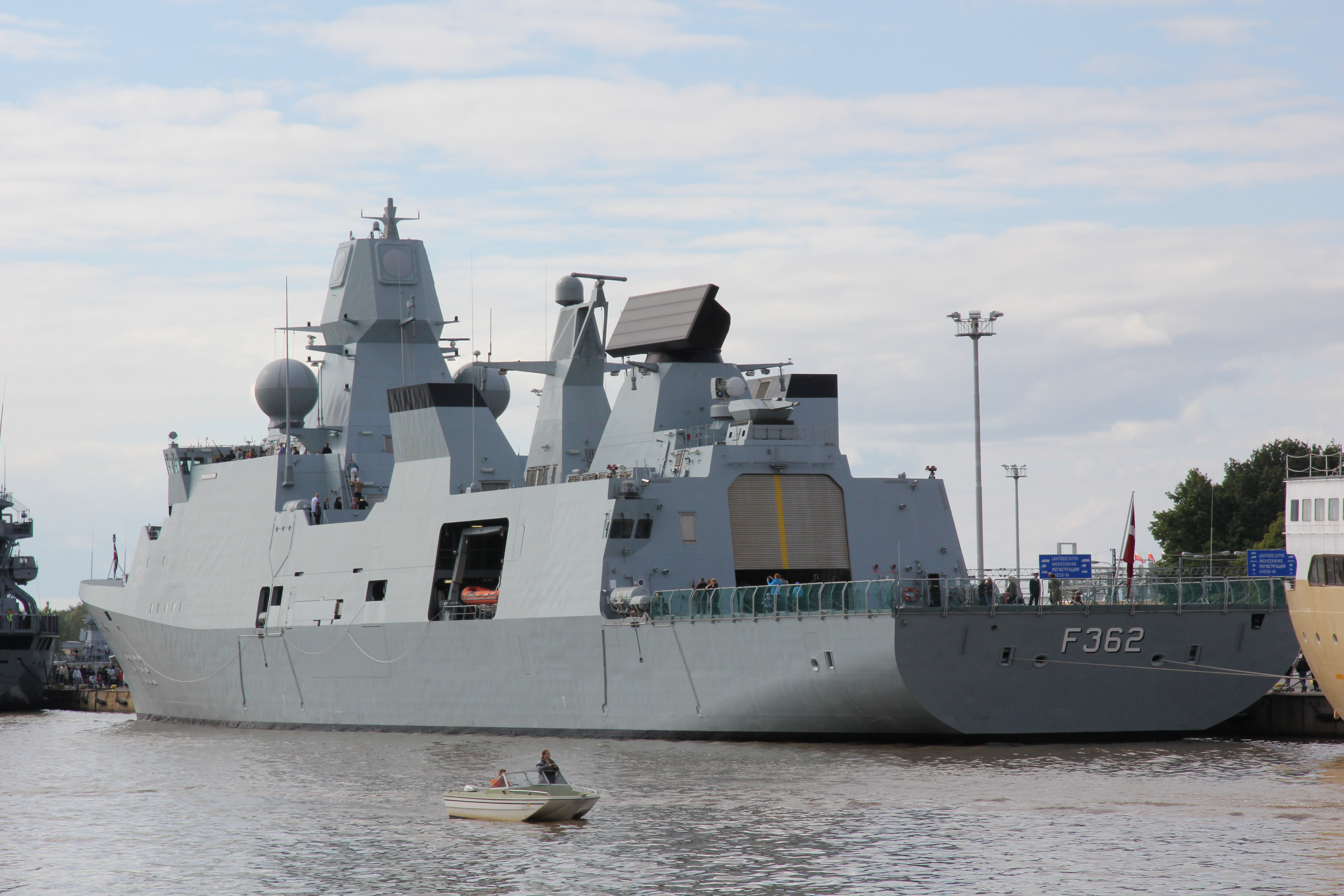 Danish Iver Huitfeldt-class frigate Peter Willemoes (F362) in Aura river in Turku during the Northern Coasts 2014 exercise public pre sail event.